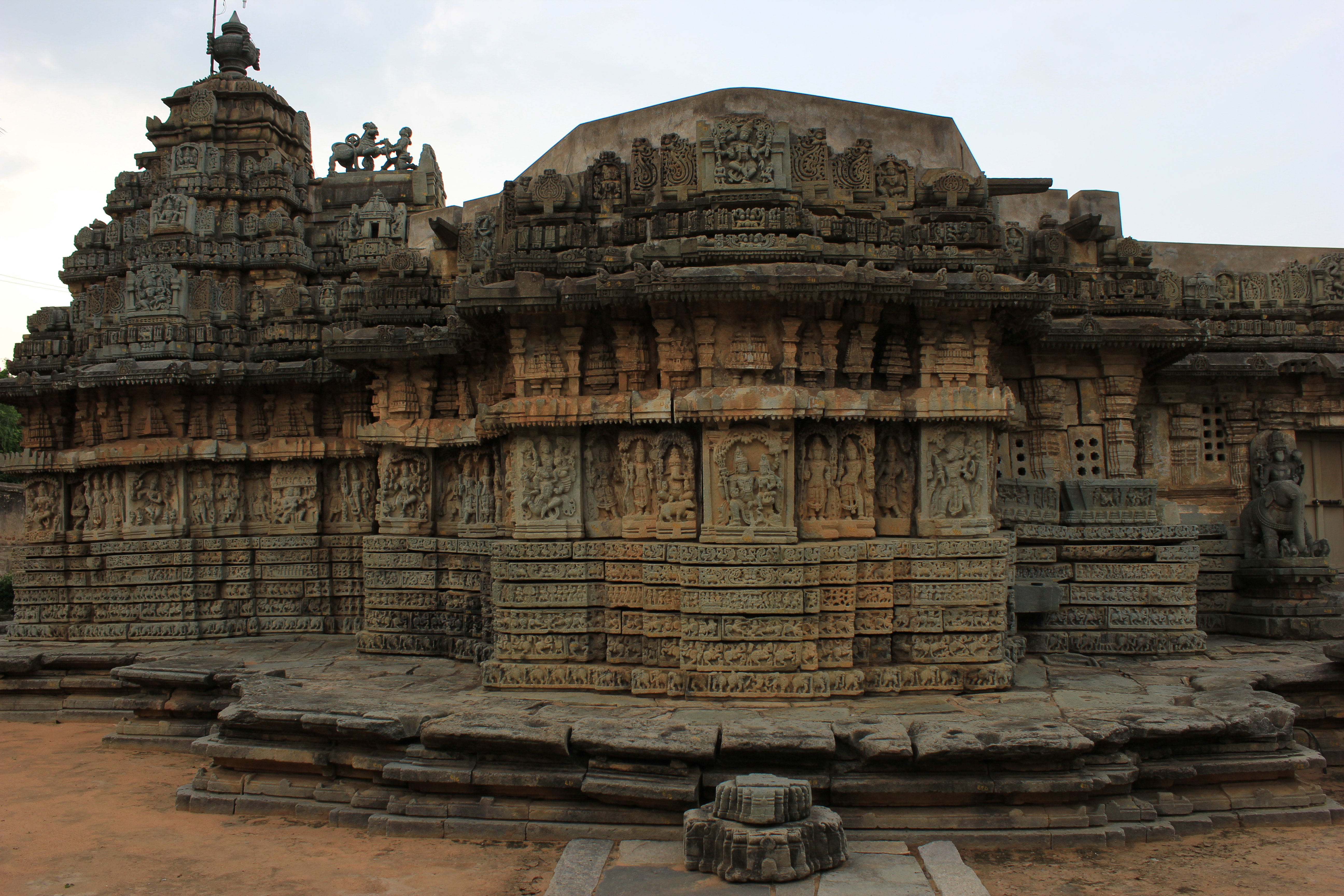 The Mallikarjuna temple is located in Basaralu, Mandya district, Karnataka state, India. The temple was built around 1234 A.D. during the rule of the Hoysala Empire King Vira Narasimha II.